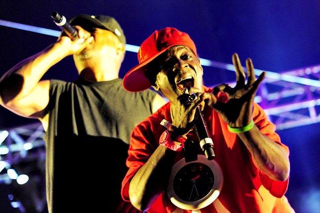 Southbound Festival 2011